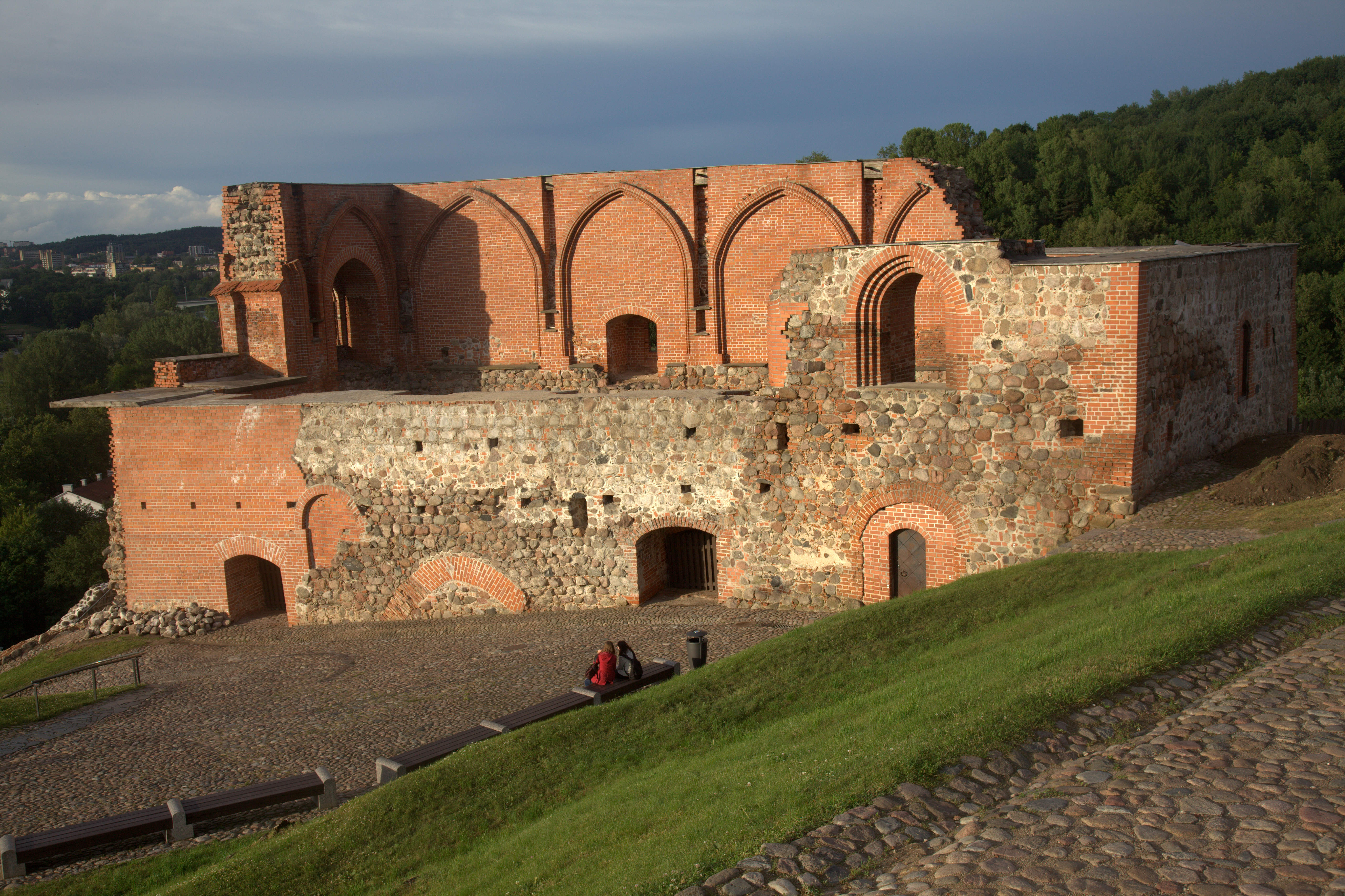 The Upper Castle in Vilnius, Lithuania. The ruins of the ducal palace.